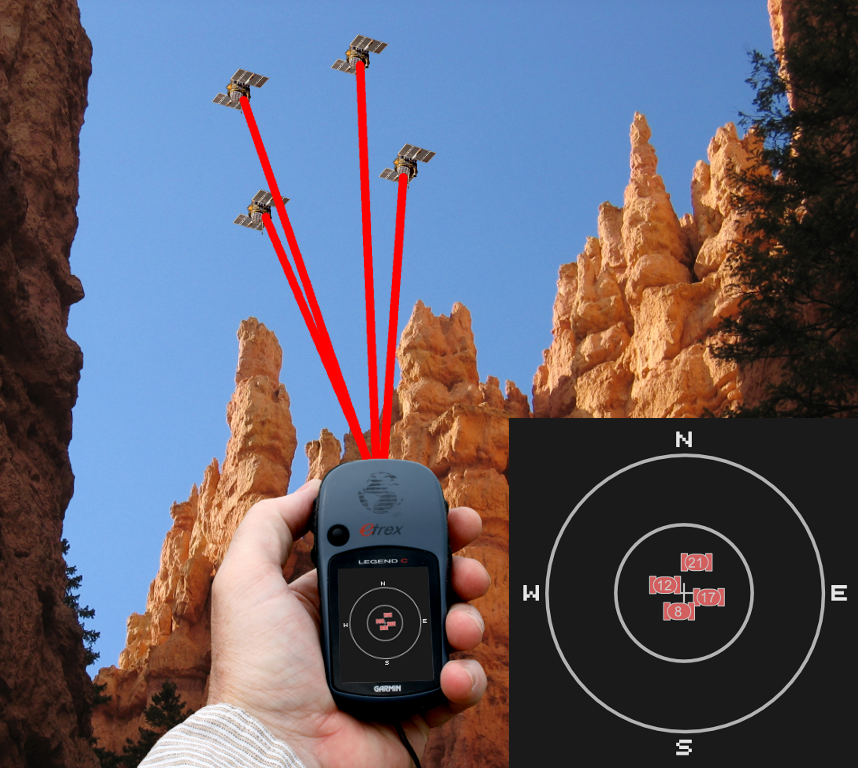 GPS satellites with poor geometry for Global Dillution of Precision (GDOP).